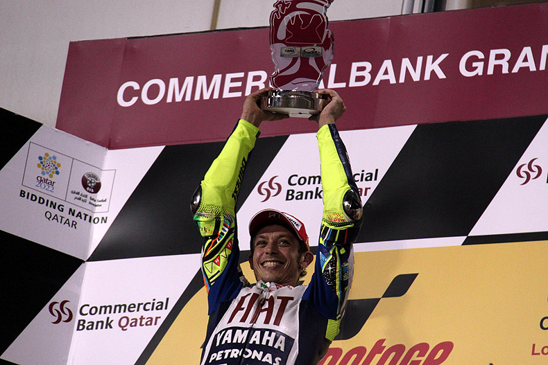 GP of Qatar